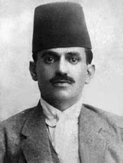 Ali Sirri Bey (Ali Sırrı Özata)